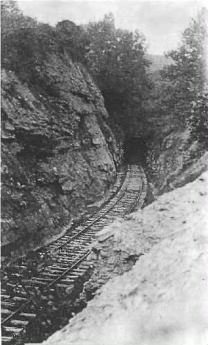 View of the south end of the Argillite Tunnel on the Eastern Kentucky Railway.